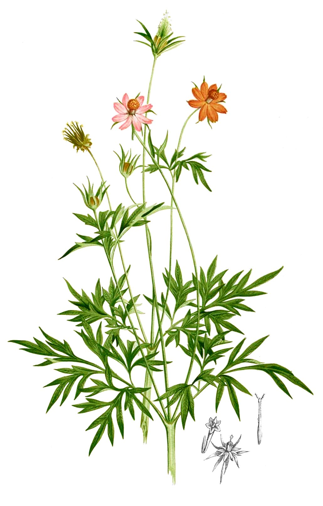 Plate from book